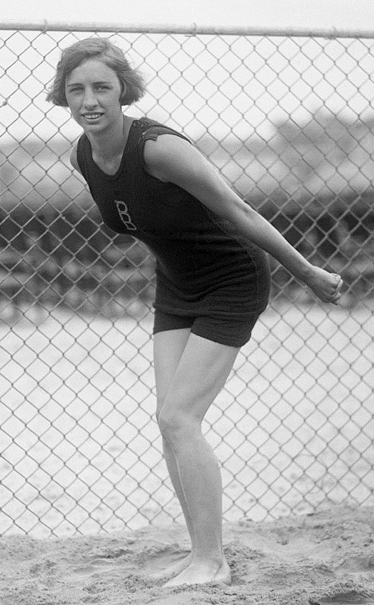 Chicago Girl Swimmer Breaks Five Worlds Records. Miss Sybil Bauer, star Mermaid of the Chicago A. C., who created four new world's records and one New American record at the Brighton Beach Pool on July 4th. She lowered the marks for 50 yards, 200 yards, 200 meters, and 220 yards. The fifty yard swim was negotiated in 34 and 2-5 seconds, or 4-5's better than the previous mark. Two hundred yards was timed in 2 minutes 51 and 4-5 seconds, two hundred meters in 3 minutes, 6 and 4-5 seconds and the 220 yards in 3 minutes, 7 and 4-5 seconds.